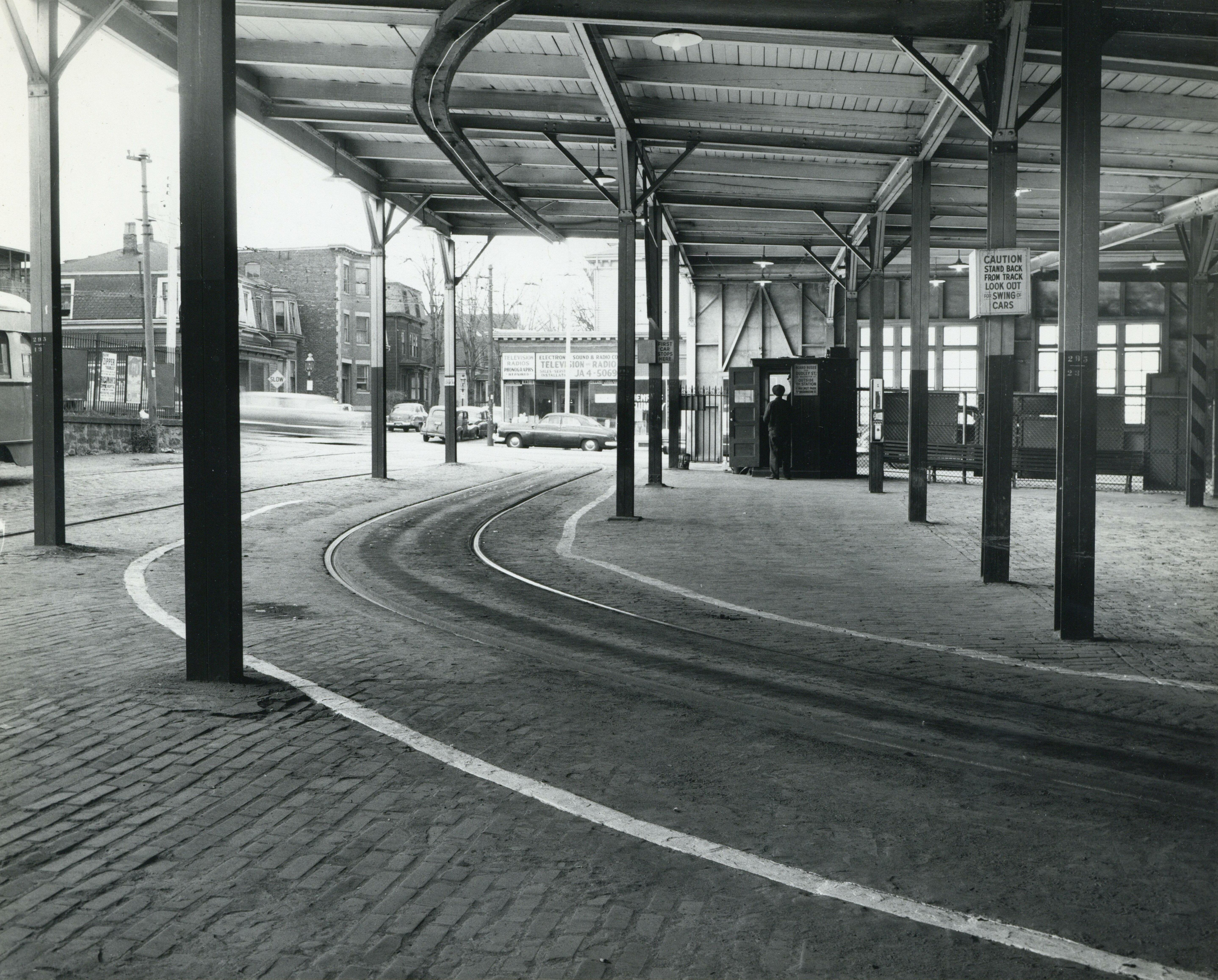 Streetcar loop at Egleston station. A PCC streetcar sits at left.